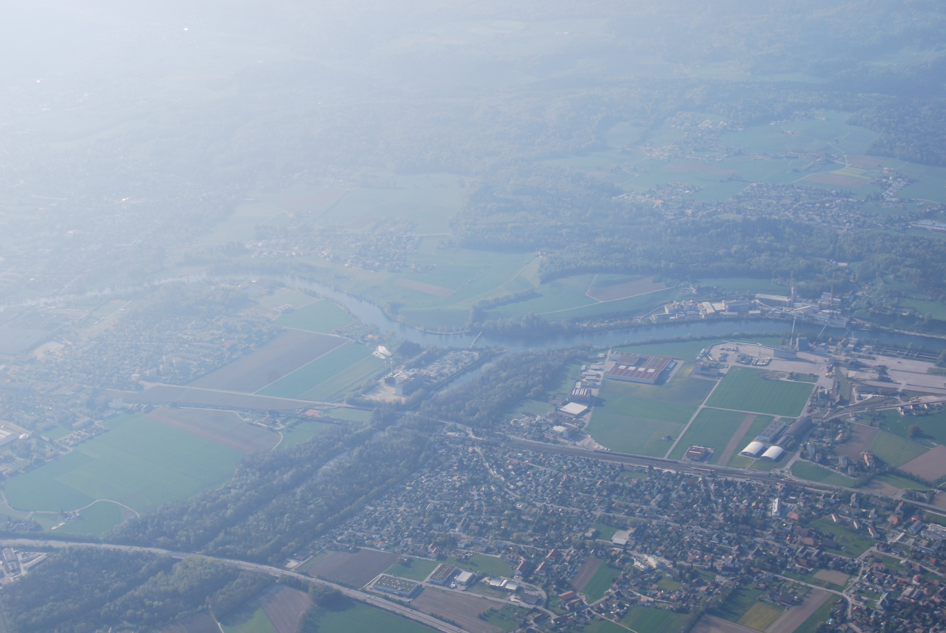 Mouth of Emme into Aar, Zuchwil and Luterbach, canton of Solothurn, Switzerland